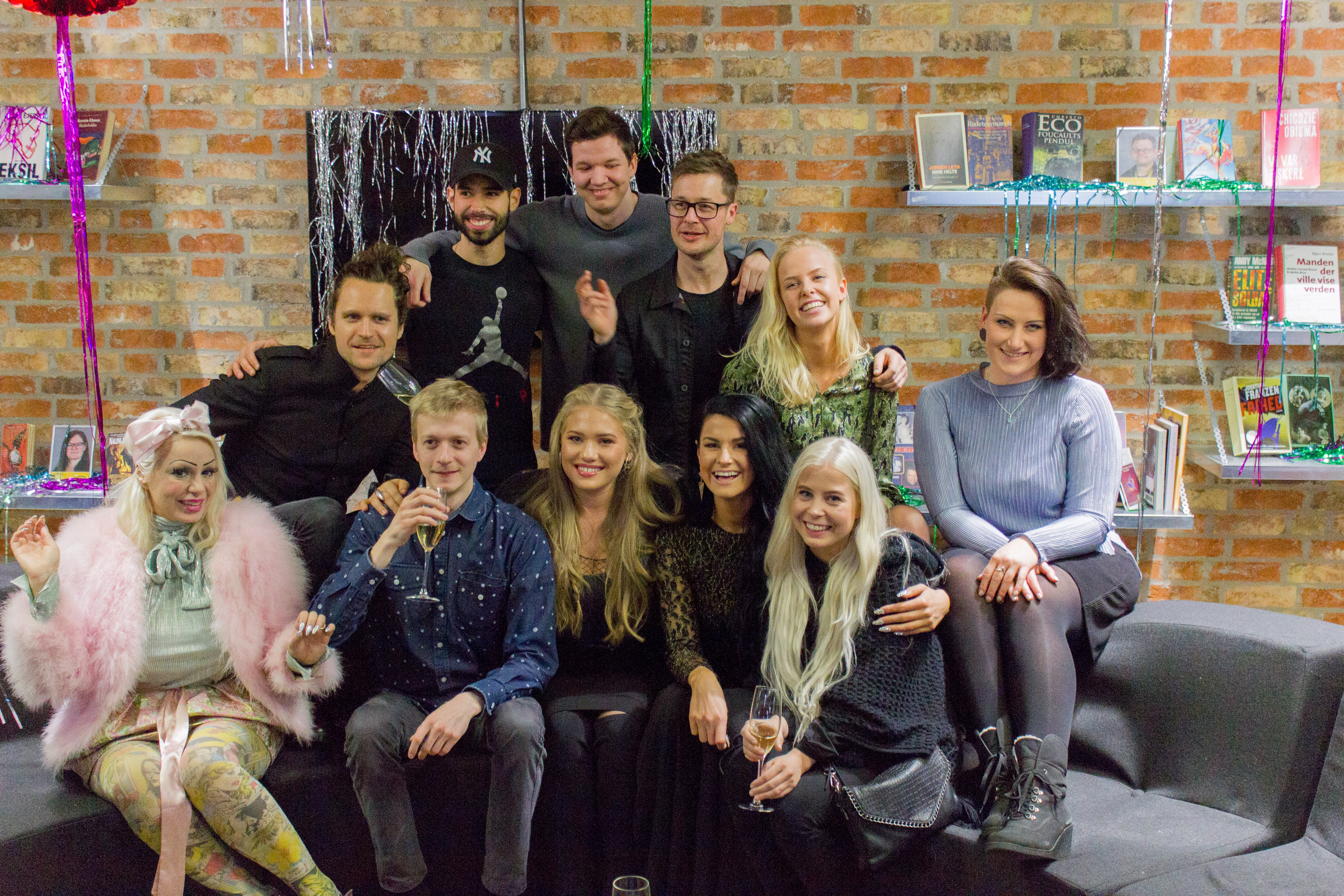 Dansk Melodi Grand Prix 2017 artists